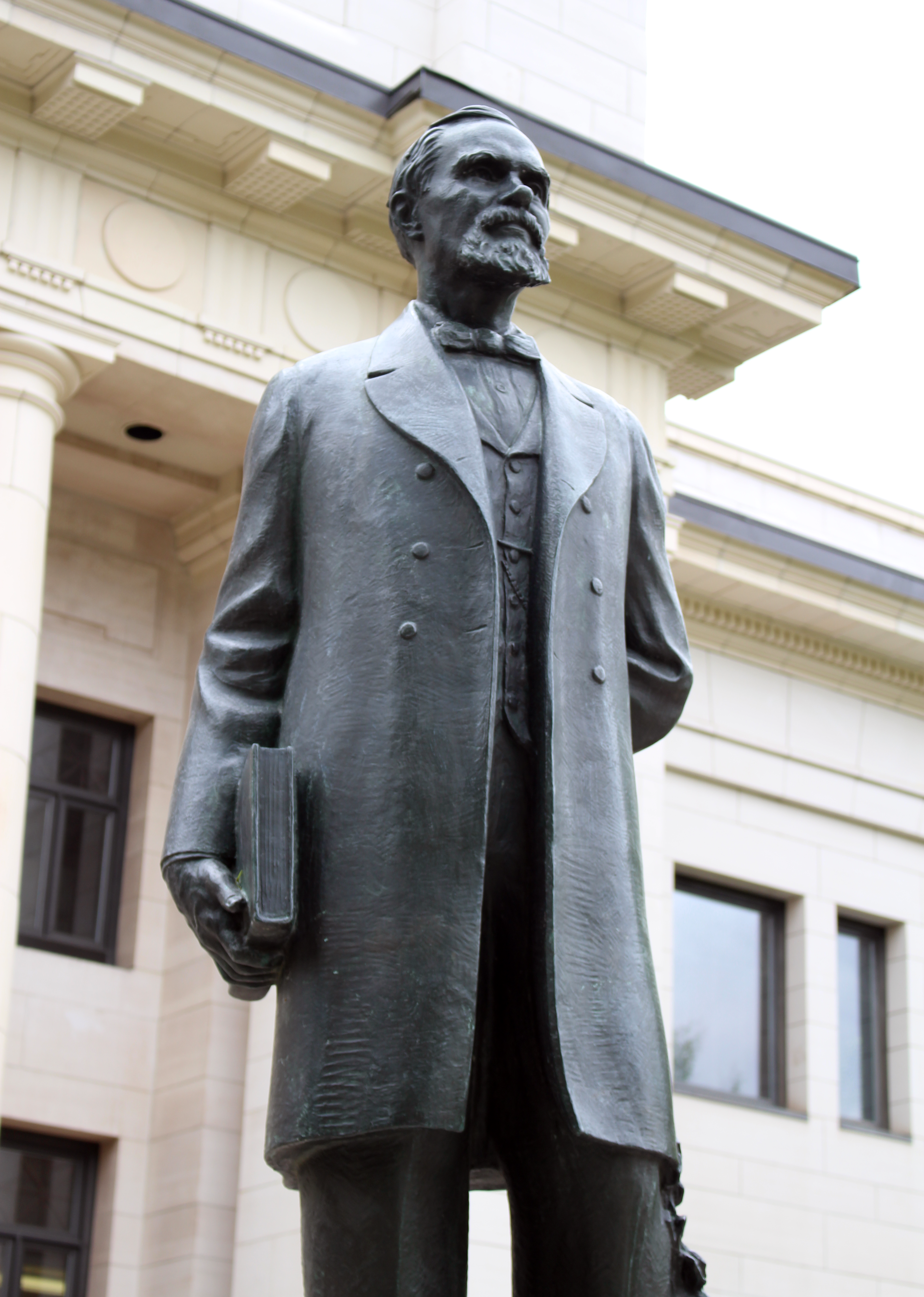 Photo of the statue of Karl G. Maeser at Brigham Young University